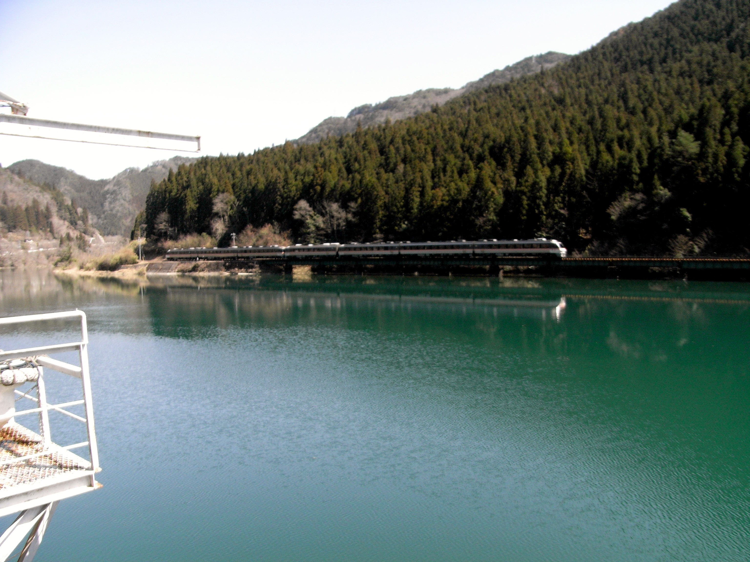 Shimohara reserver(Gifu Pref./Japan)